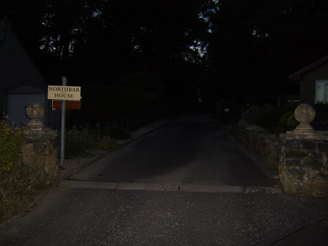 Private road to Northbar House